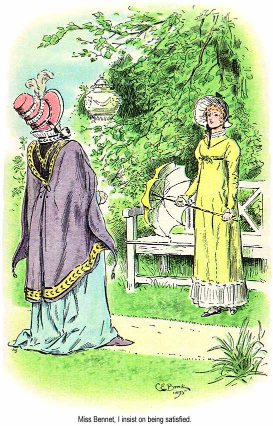 C. E. Brock illustration for the 1895 edition of Jane Austen's novel Pride and Prejudice (Chapter 57: Lady Catherine de Bourgh comes to make Elizabeth promise not to mary Mr Darcy.)